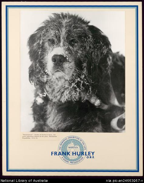 "Shakespeare", leader of Hurley's team, the most sagacious animal in the pack. Endurance Expedition lead by Ernest Shackleton (1915-1917).